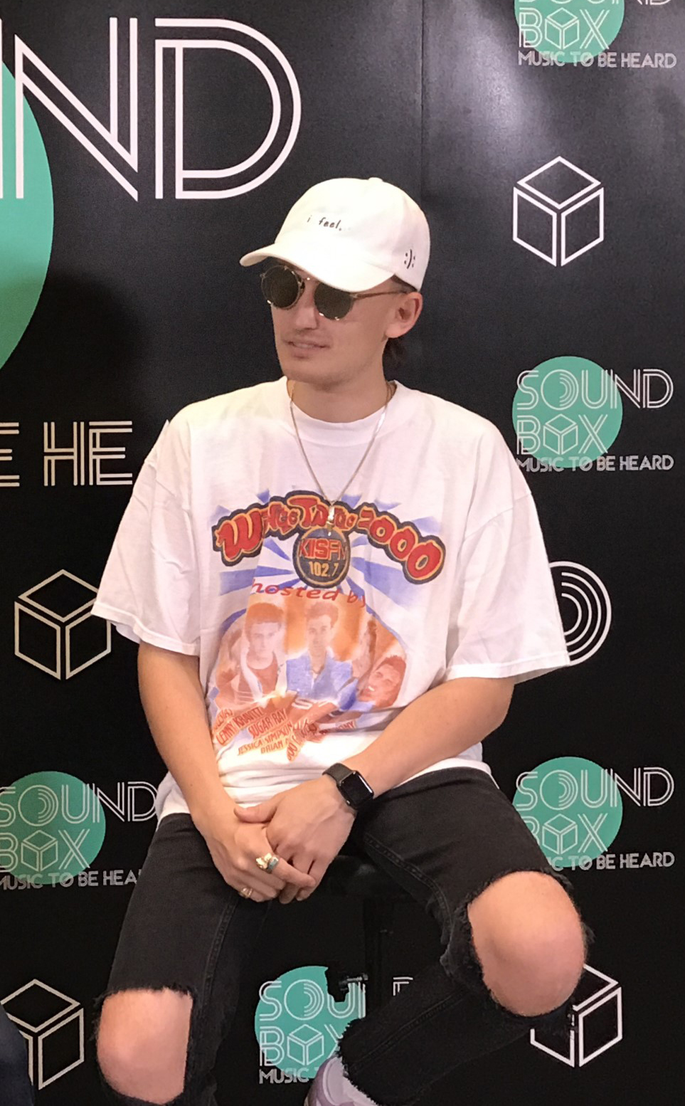 Gnash at Soundbox, Bangkok.